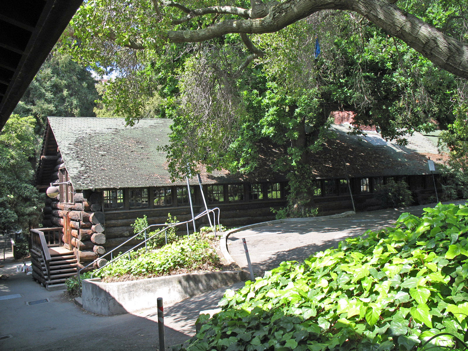 National Register of Historic Places listings in Alameda County, California. Senior Hall, University of California, Berkeley. Photographed 2009-04-26 from southwest of the building near the southeast corner of the Faculty Club.